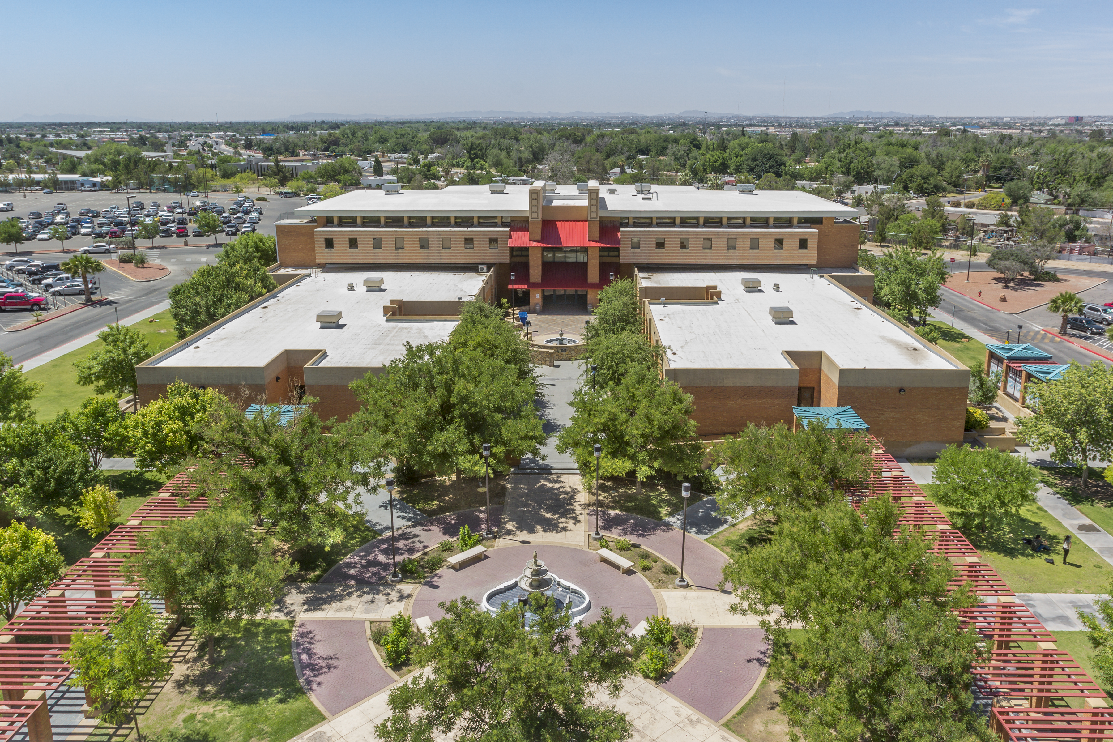 Main Campus of the El Paso Community College